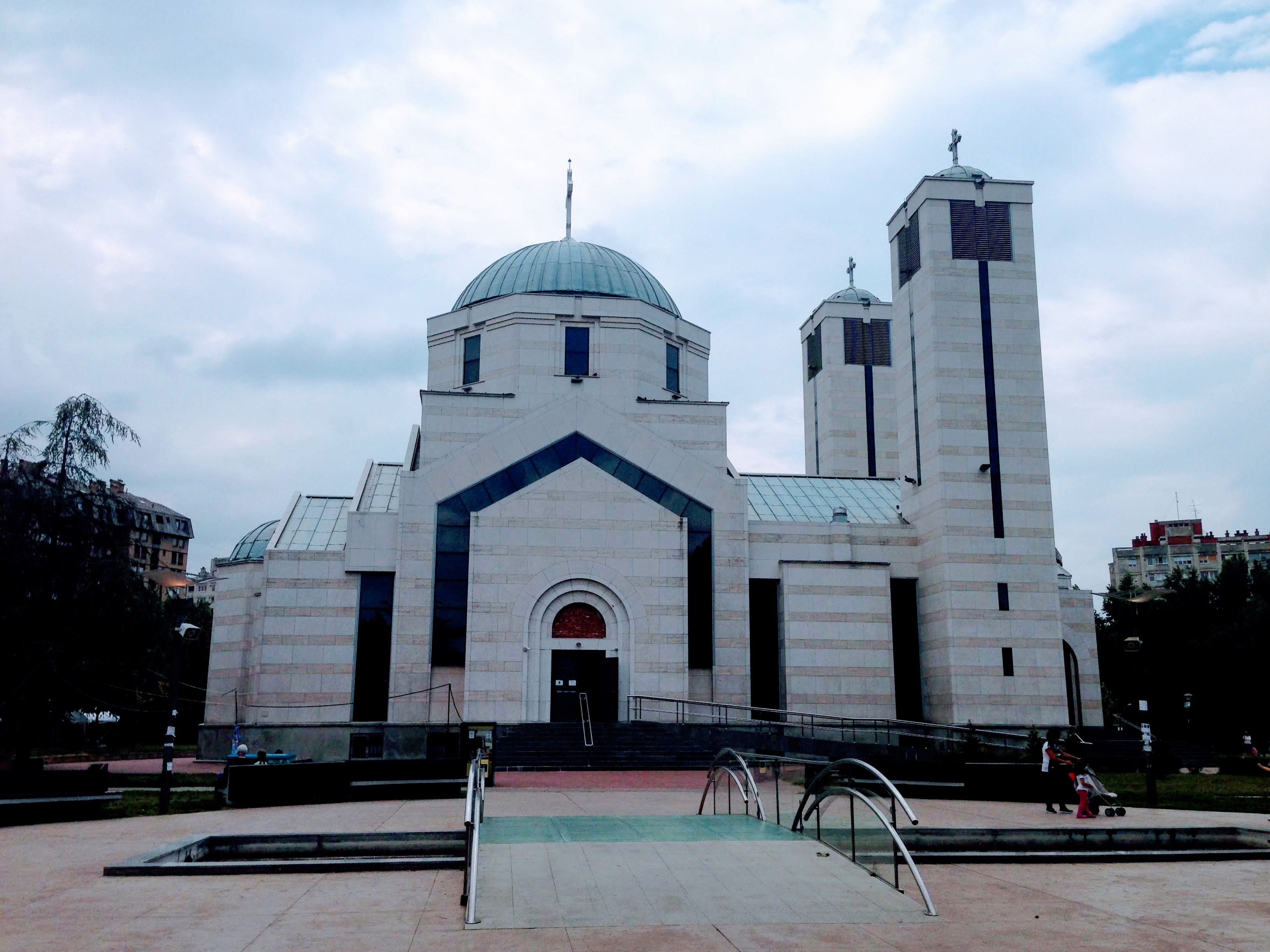 Church of the Holy Emperor Constantine and Empress Helena